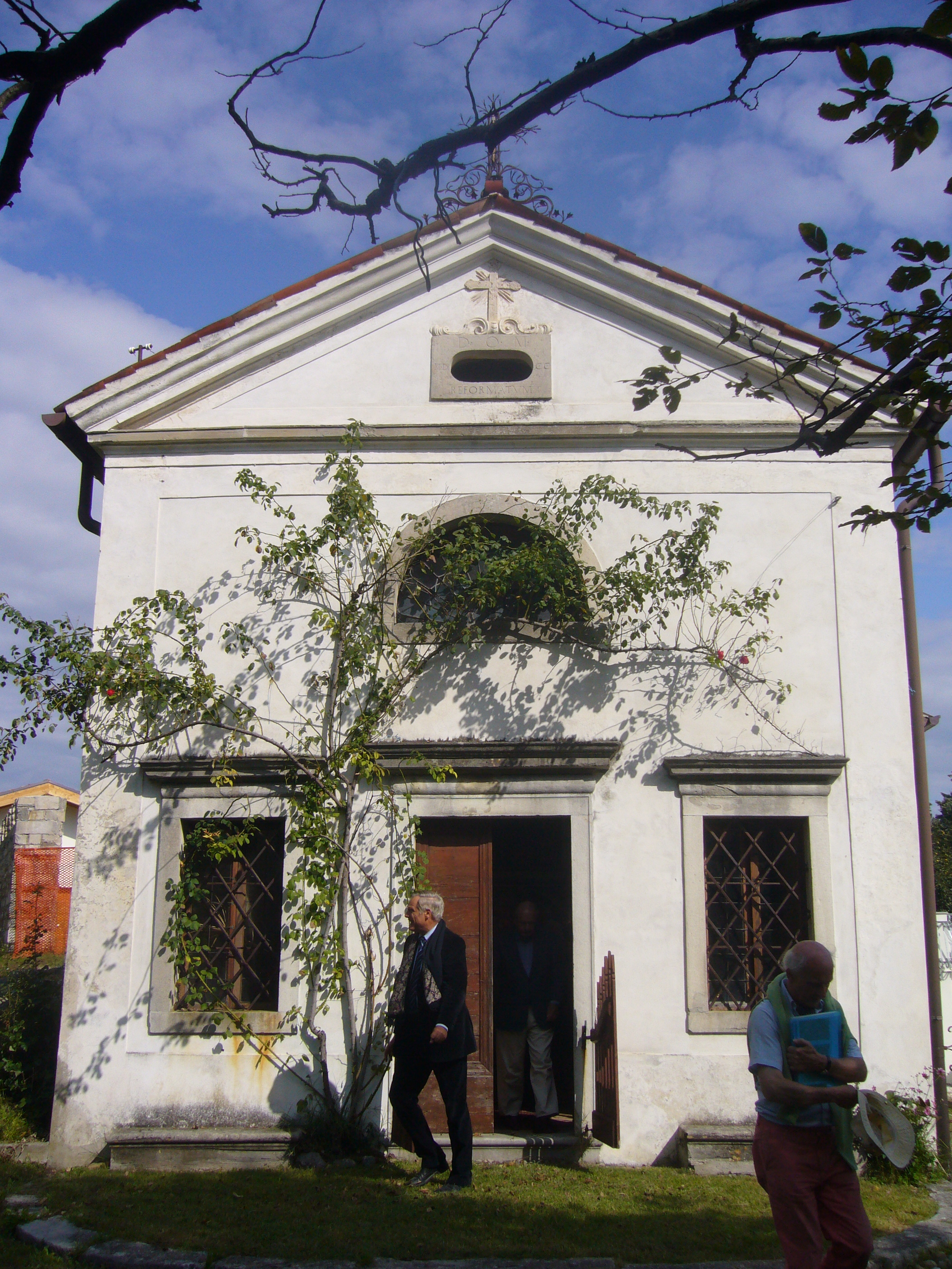 Brazzà castle, Italy, chapel